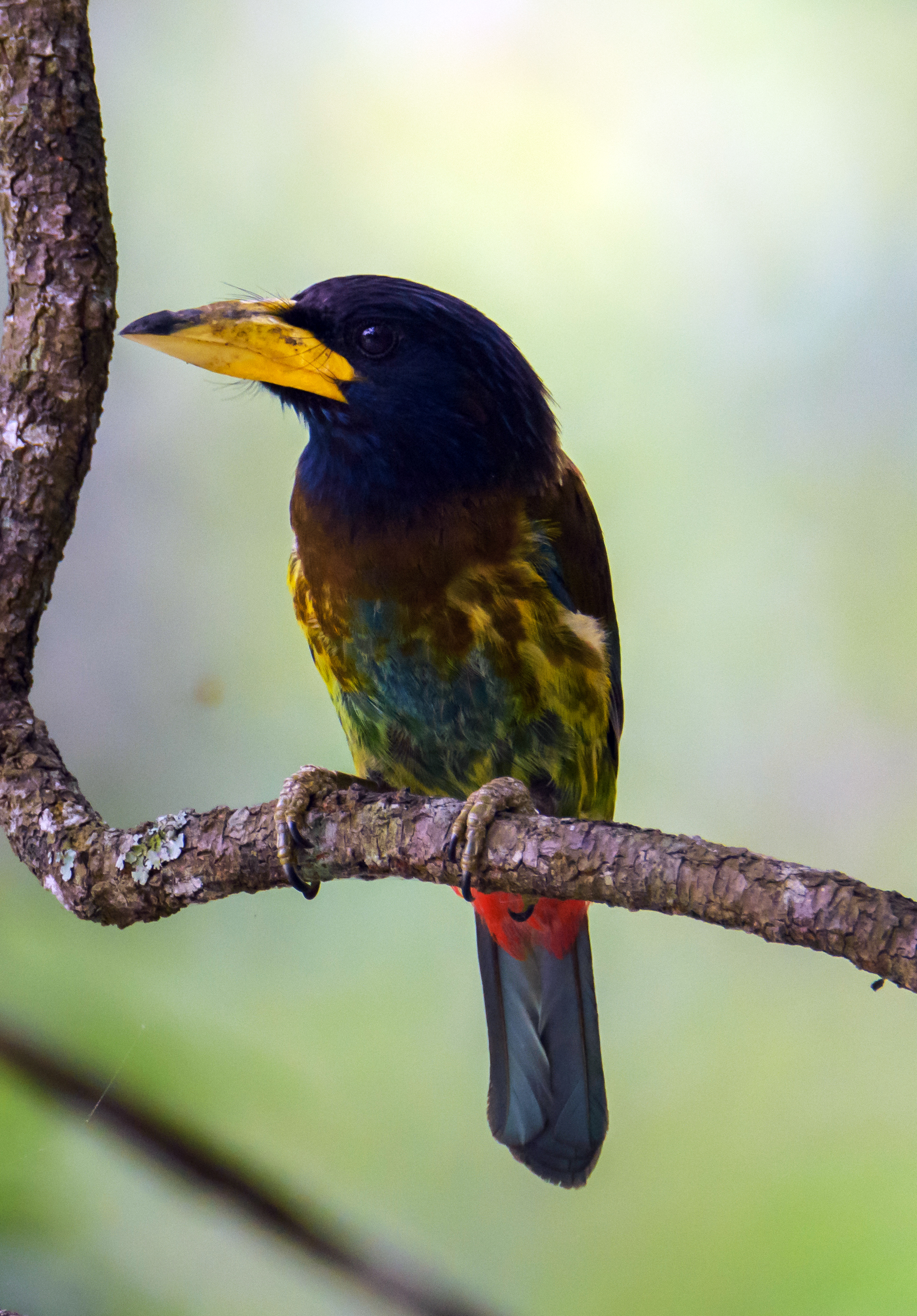 Great Barbet, Scientific Name: Megalaima virens, Nepali Name: Nauli (न्याउली) in Godhawari Botanical Garden